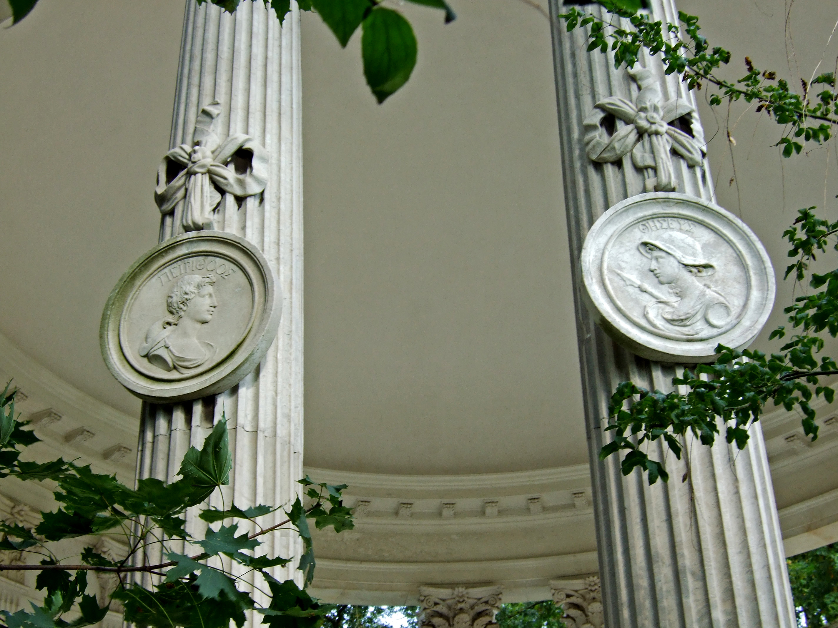 Friends Pirithous and Theseus. Medallion pair on the Temple of Friendship, Sanssouci Park, Potsdam